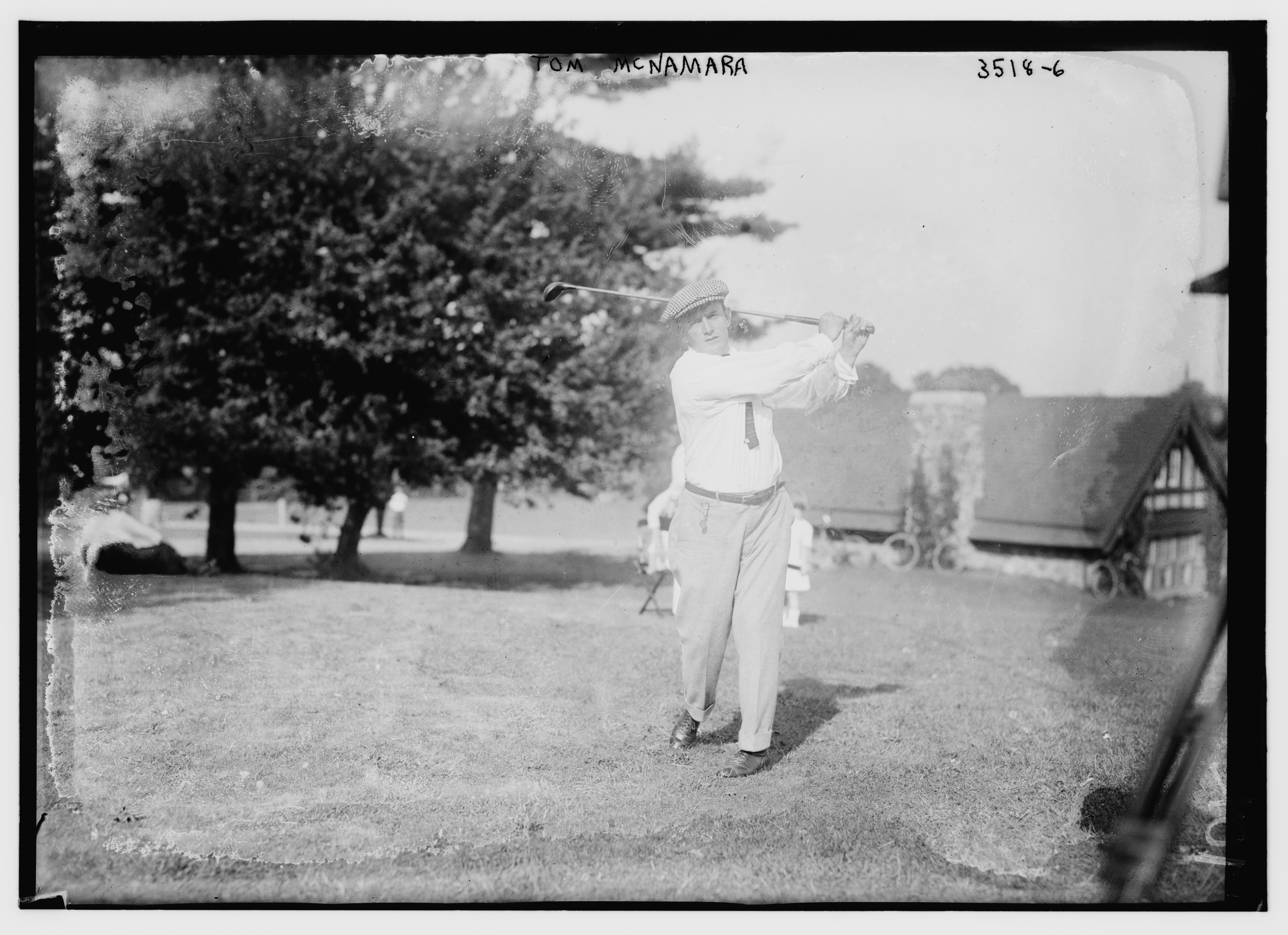 Title: Tom McNamara Abstract/medium: 1 negative : glass ; 5 x 7 in. or smaller.